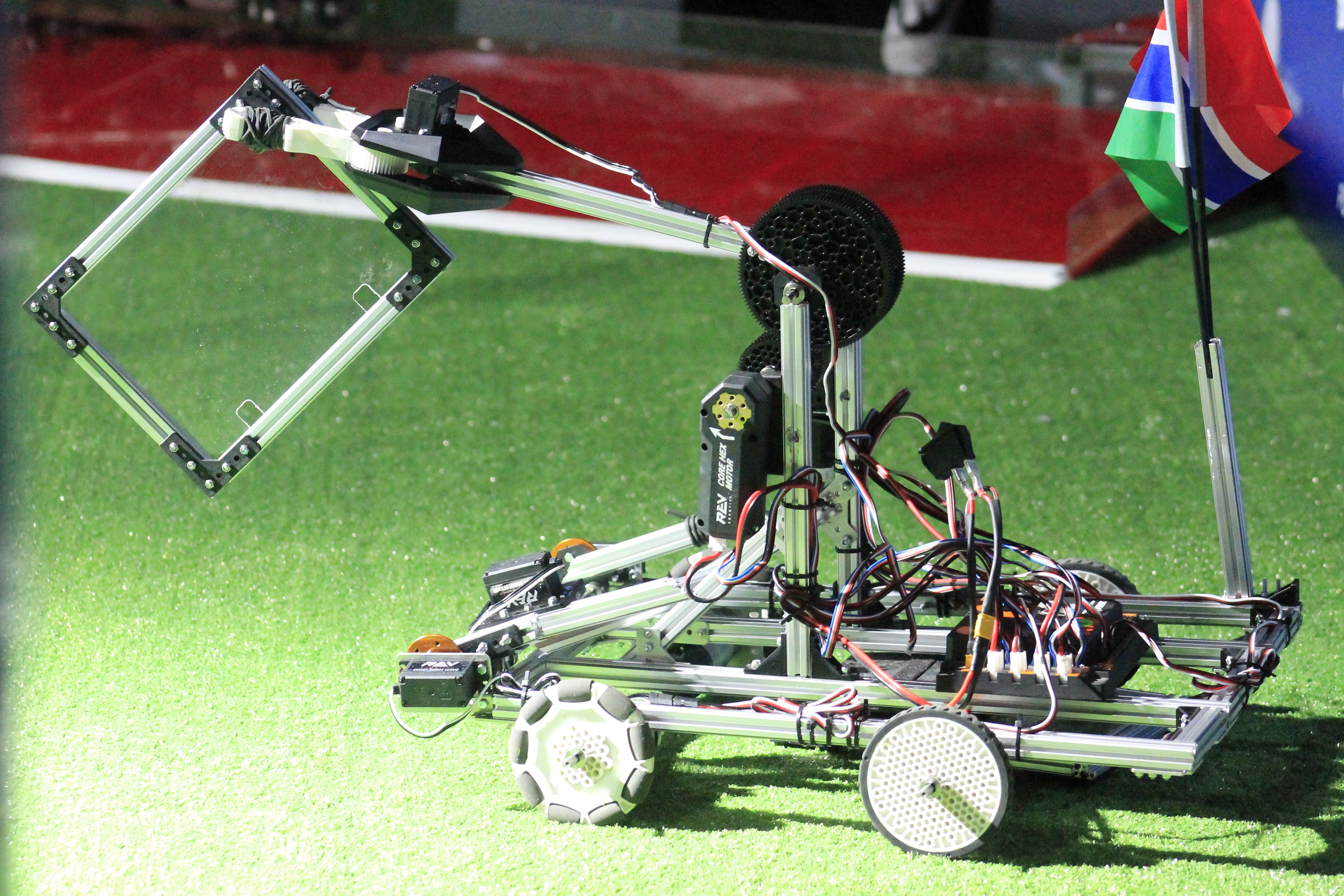 FIRST Global Challenge 2018, carried out at Mexico City.